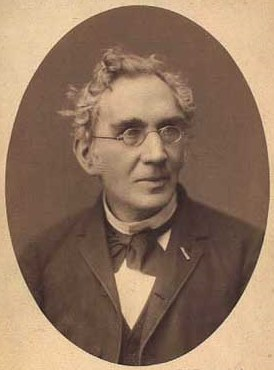 Hans Peter Holst (1811-1893), Danish poet